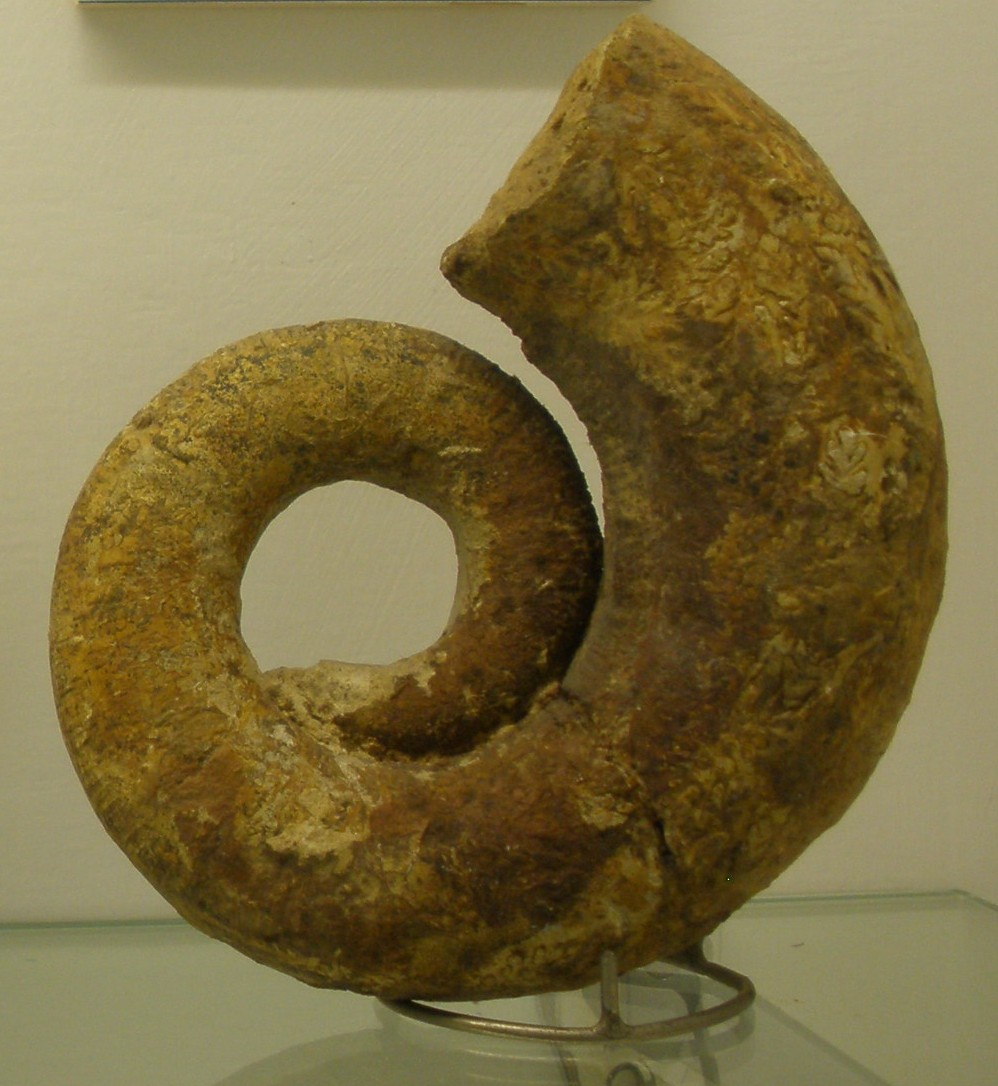 A fossil Lytoceras fimbriatum, Museo di Storia Naturale di Verona